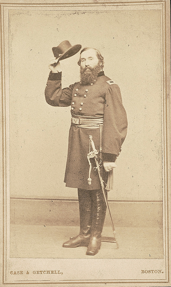 Brigadier General Isaac Fitzgerald Shepard of 3rd Missouri Infantry Regiment and 51st U.S. Colored Troops Infantry Regiment in uniform with sword / Case & Getchell, photographic artists, 299-1/2 Washington Street, Boston.